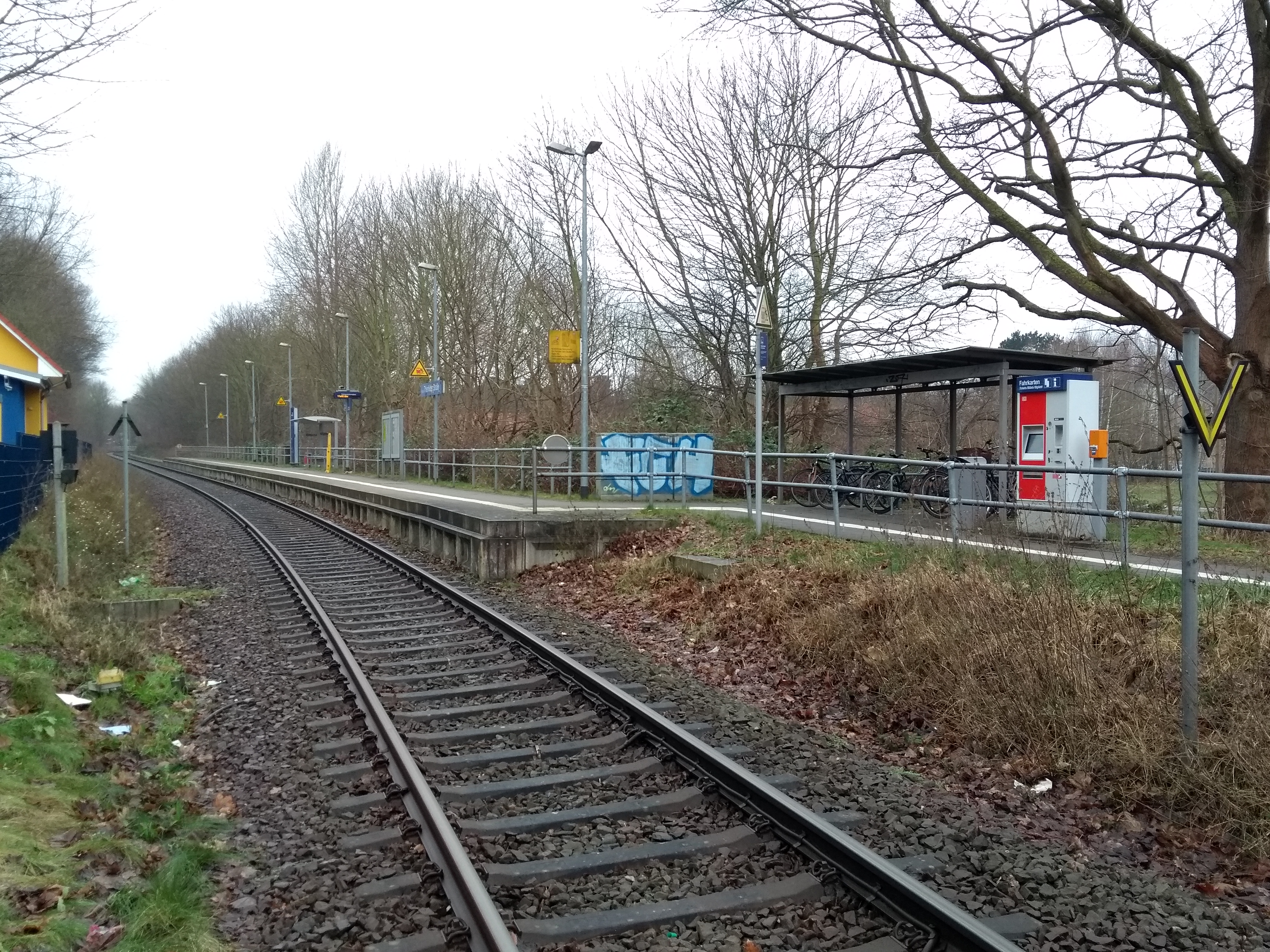 Rostock Thierfelder Straße railway stop